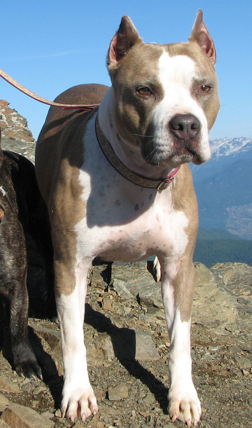 This picture was taken October 2006 on Sauk Mountain (located off the North Cascades Hwy just east of Concrete) in Washington State. Schatzi is owned and loved by Debra and Xavier Figueroa and their other dog, Tazz, a French Bulldog. Schatzi is a UKC GR CGC American Pit Bull Terrir This picture was taken October 2006 on Sauk Mountain (located off the North Cascades Hwy just east of Concrete) in Washington State. Schatzi is owned and loved by Debra and Xavier Figueroa and their other dog, Tazz, a French Bulldog. Schatzi is a UKC GR CGC American Pit Bull Terrir